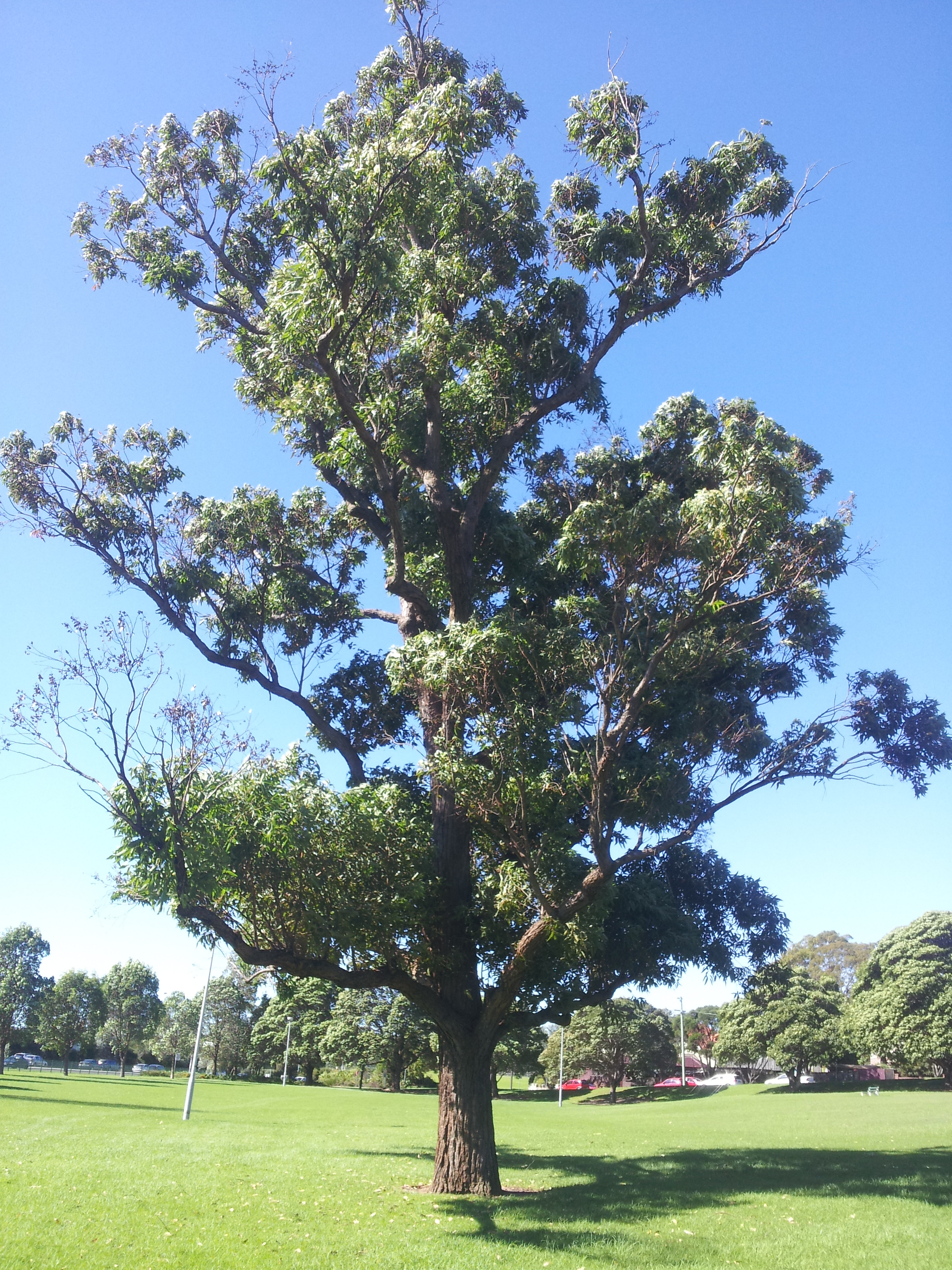 Remnant Eucalyptus robusta tree, Robson Park, Haberfield